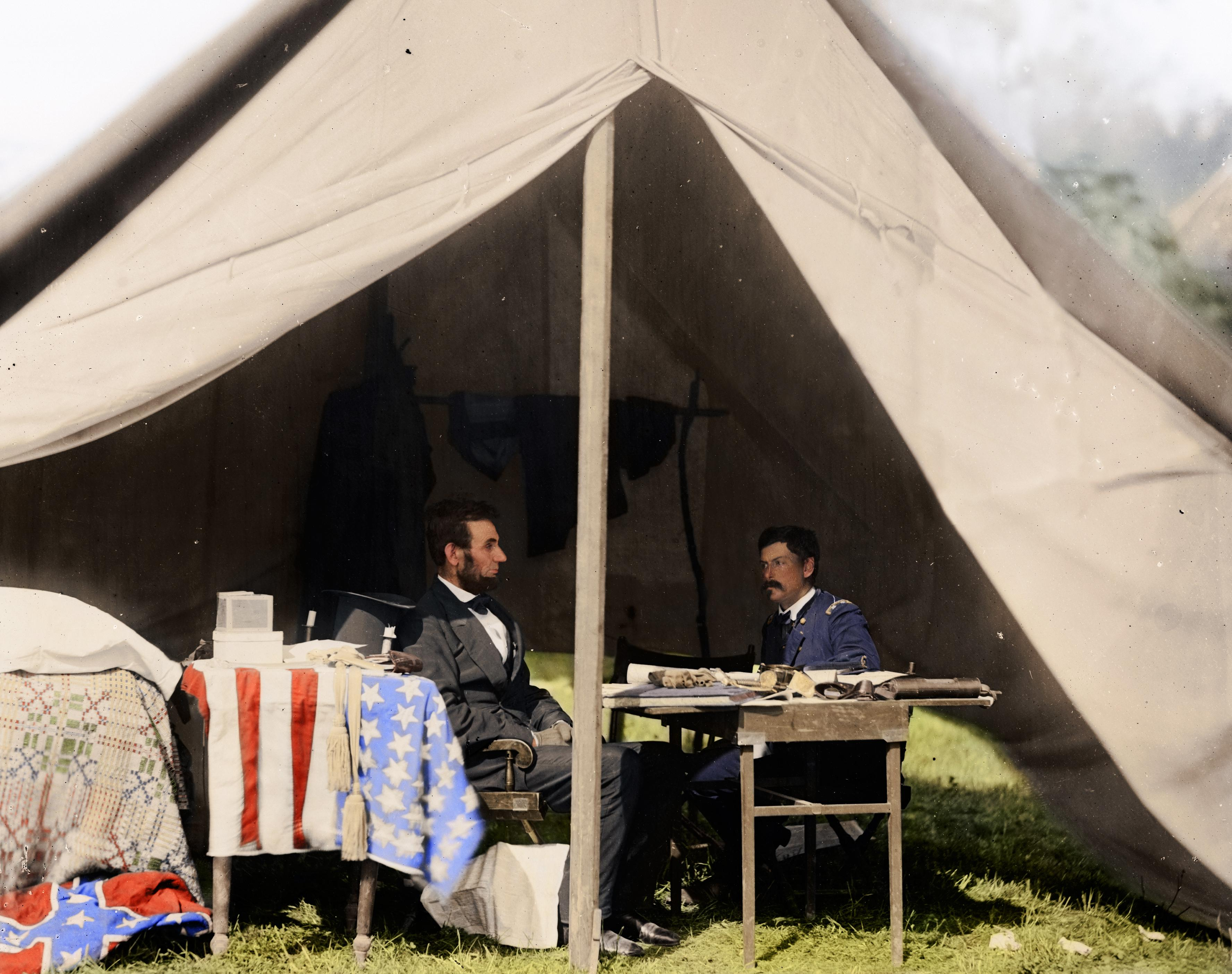 Restored and colourized version.